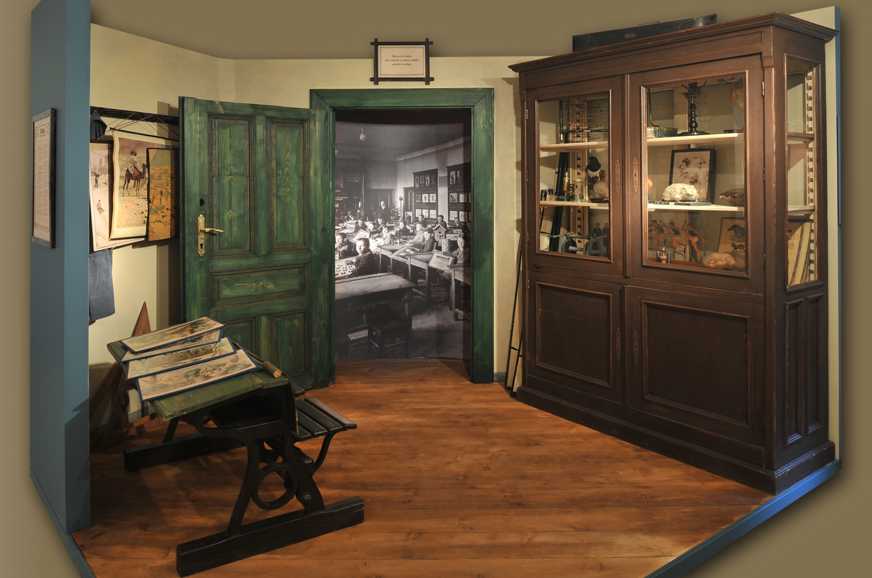 Pedagogical museum of J. A. Comenius in Prague - school cabinet in 19th century